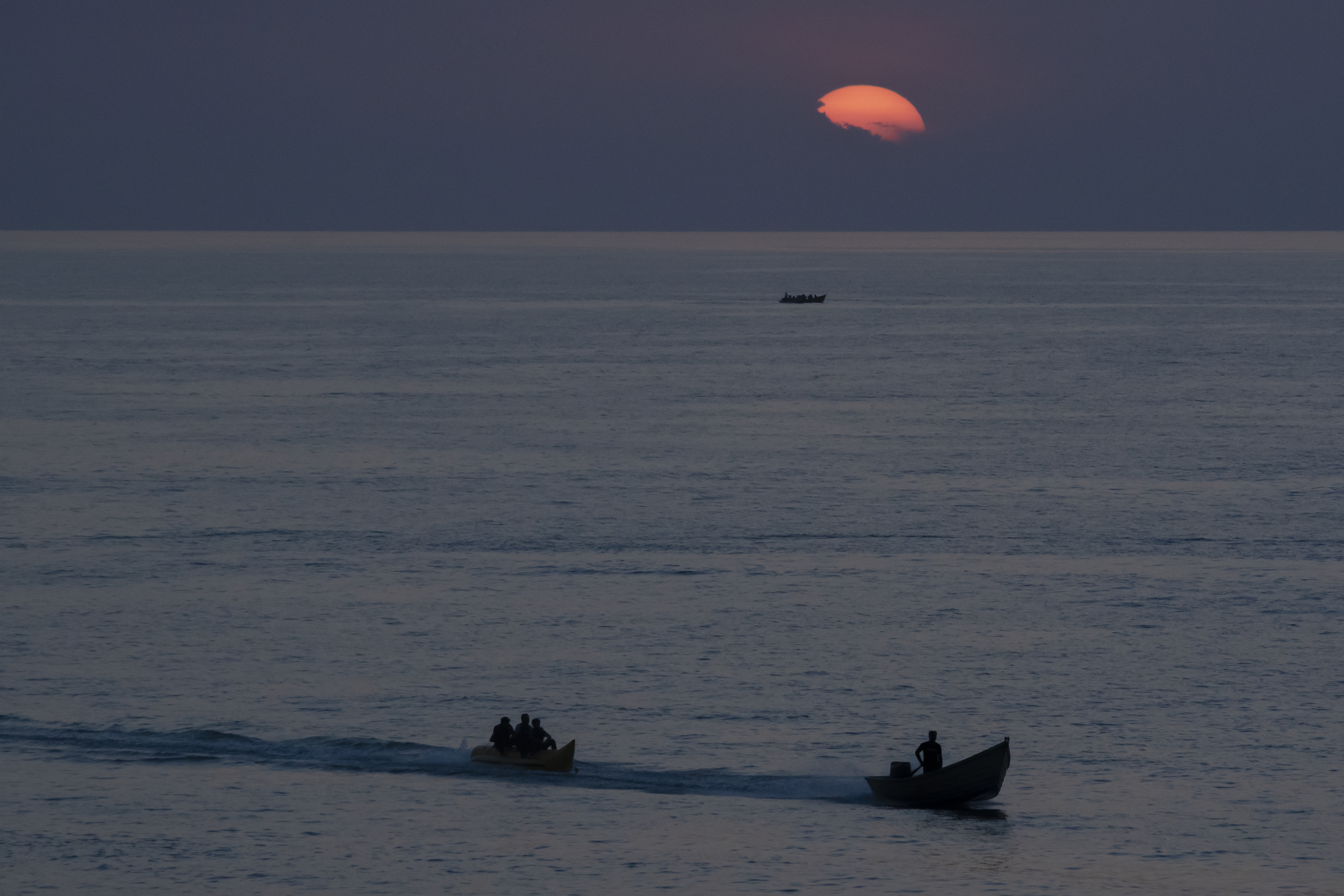 Sorkhrud is a city and capital of Sorkhrud District, in Mahmudabad County, Mazandaran Province, Iran. At the 2006 census, its population was 6,569, in 1,841 families.